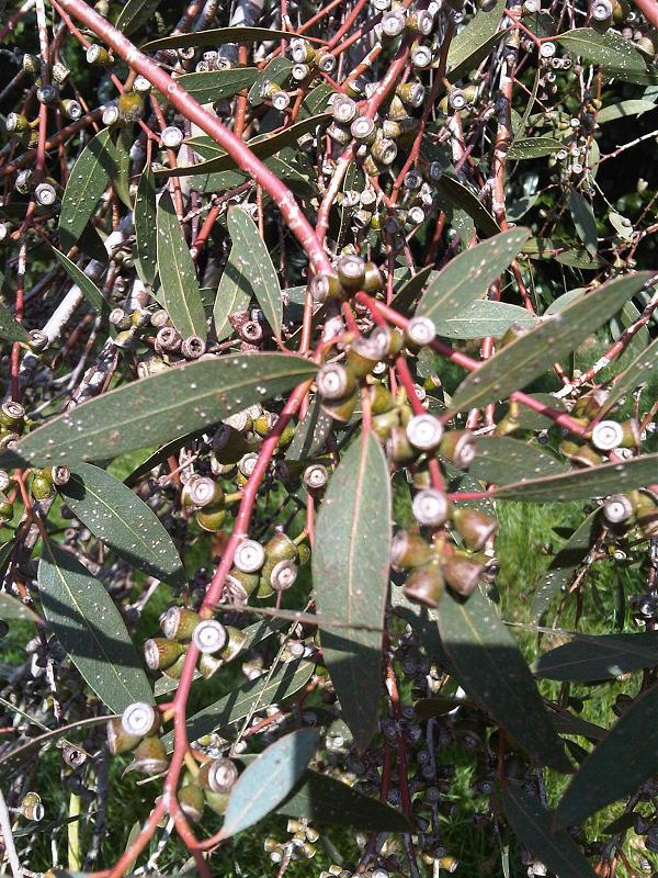 Eucalyptus dalrympleana fruits and leaves in Kew Gardens, England.